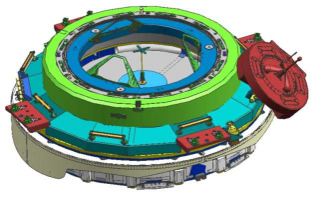 Computer-aided design (CAD) model of the Common Docking Adapter (CDA). Please note the Power Data Grapple Fixture would be remove prior to a vehicle docking.